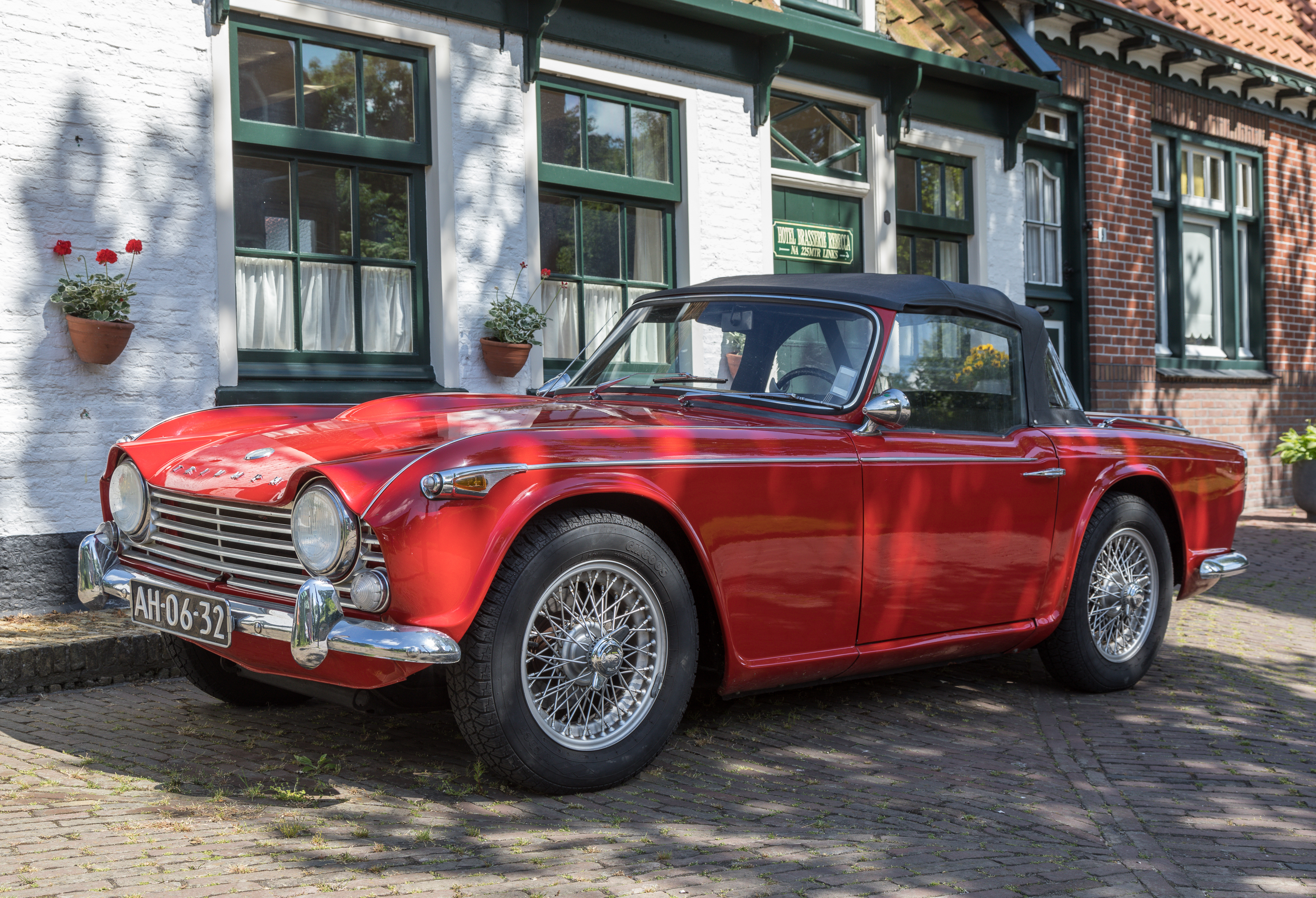 Triumph TR4A